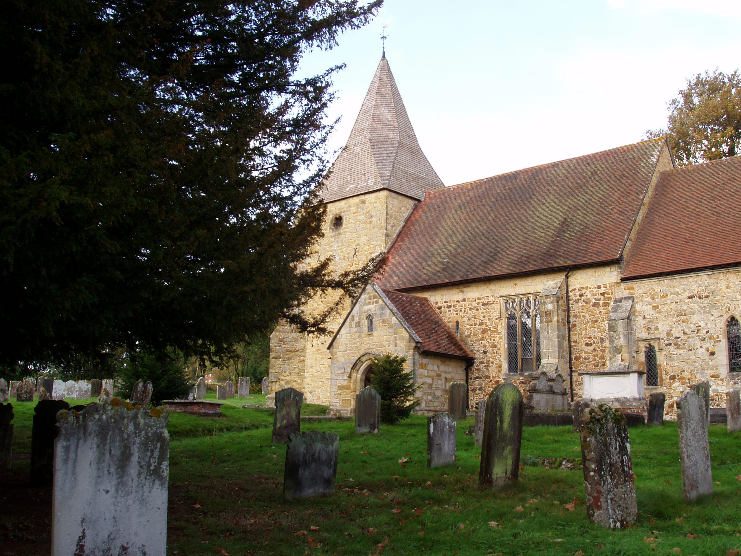 Nave and west tower of St Peter's Old Church, Pembury, Kent, seen from the southeast